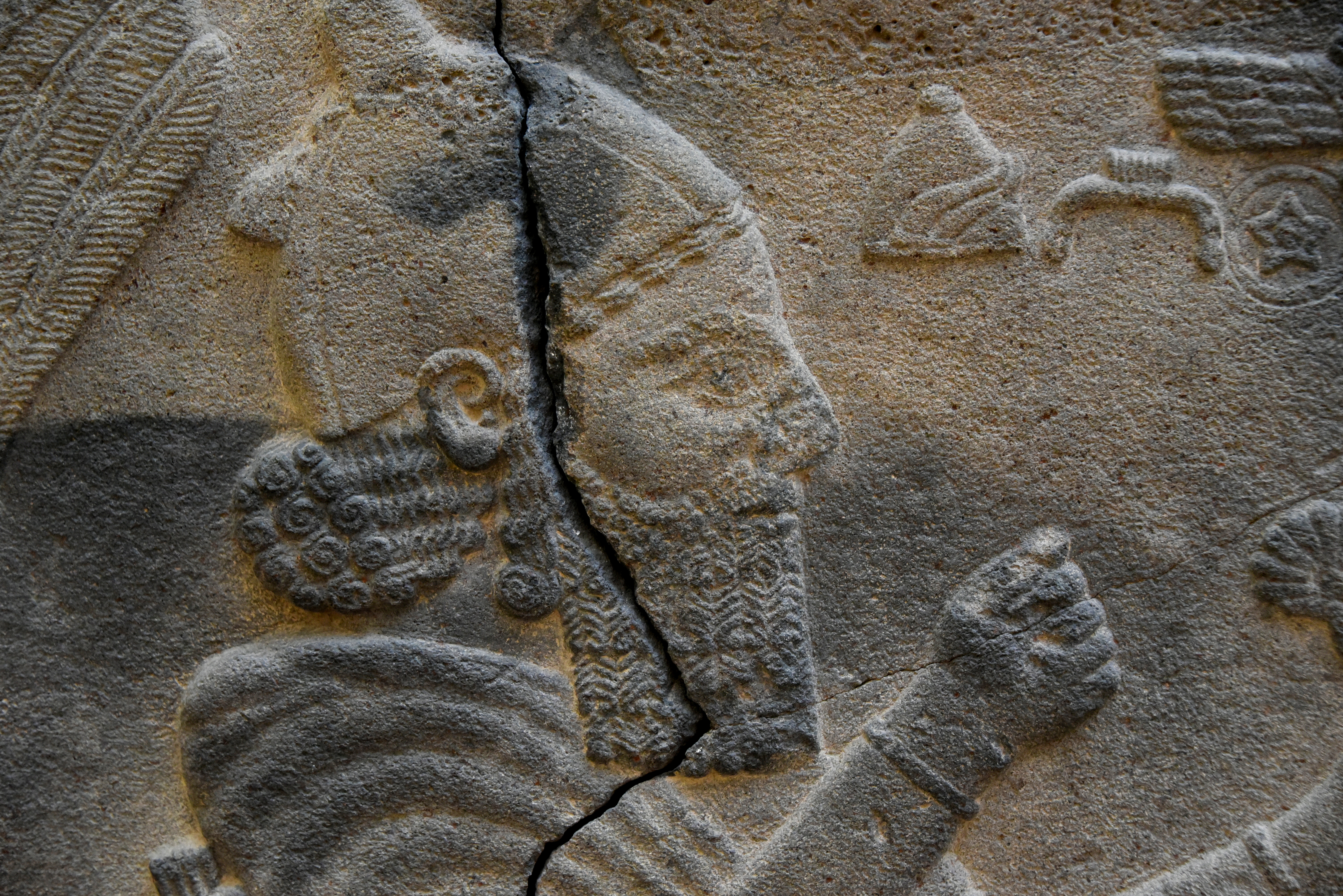 King Barrekub prays in front of divine symbols. The Hittite hieroglyphic inscriptions (not seen) narrate the construction of his palace at Sam'al. Detail of a basalt stele from Sam'al (Zincirli Höyük), in modern-day Turkey. Late Hittite period, 8th century BC. Museum of the Ancient Orient, Istanbul.